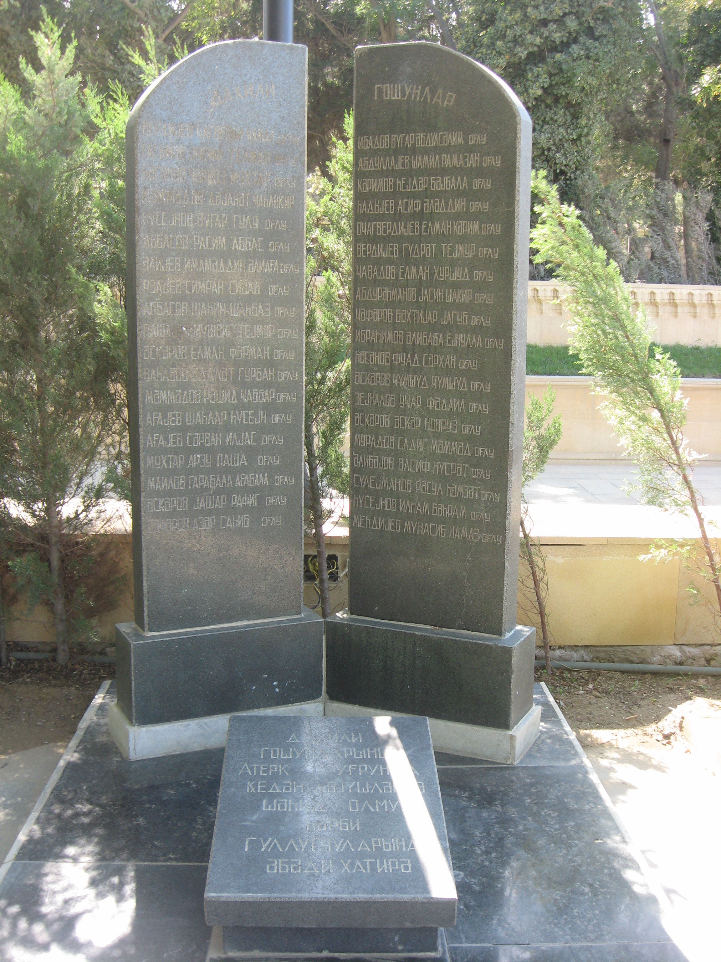 Memorial for fallen Azerbaijani soldiers in Aterk village (Kalbajar rayon, Azerbaijan) in Baku.